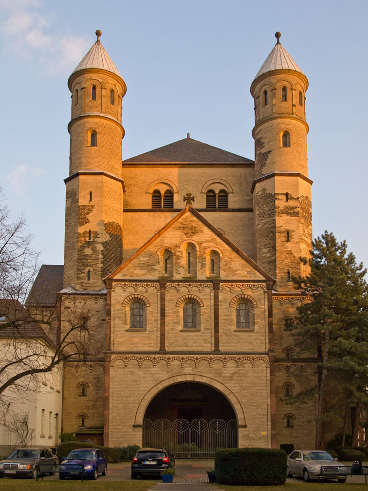 St. Pantaleon, Romanesque church in Cologne, Germany (O2044952-cv4)